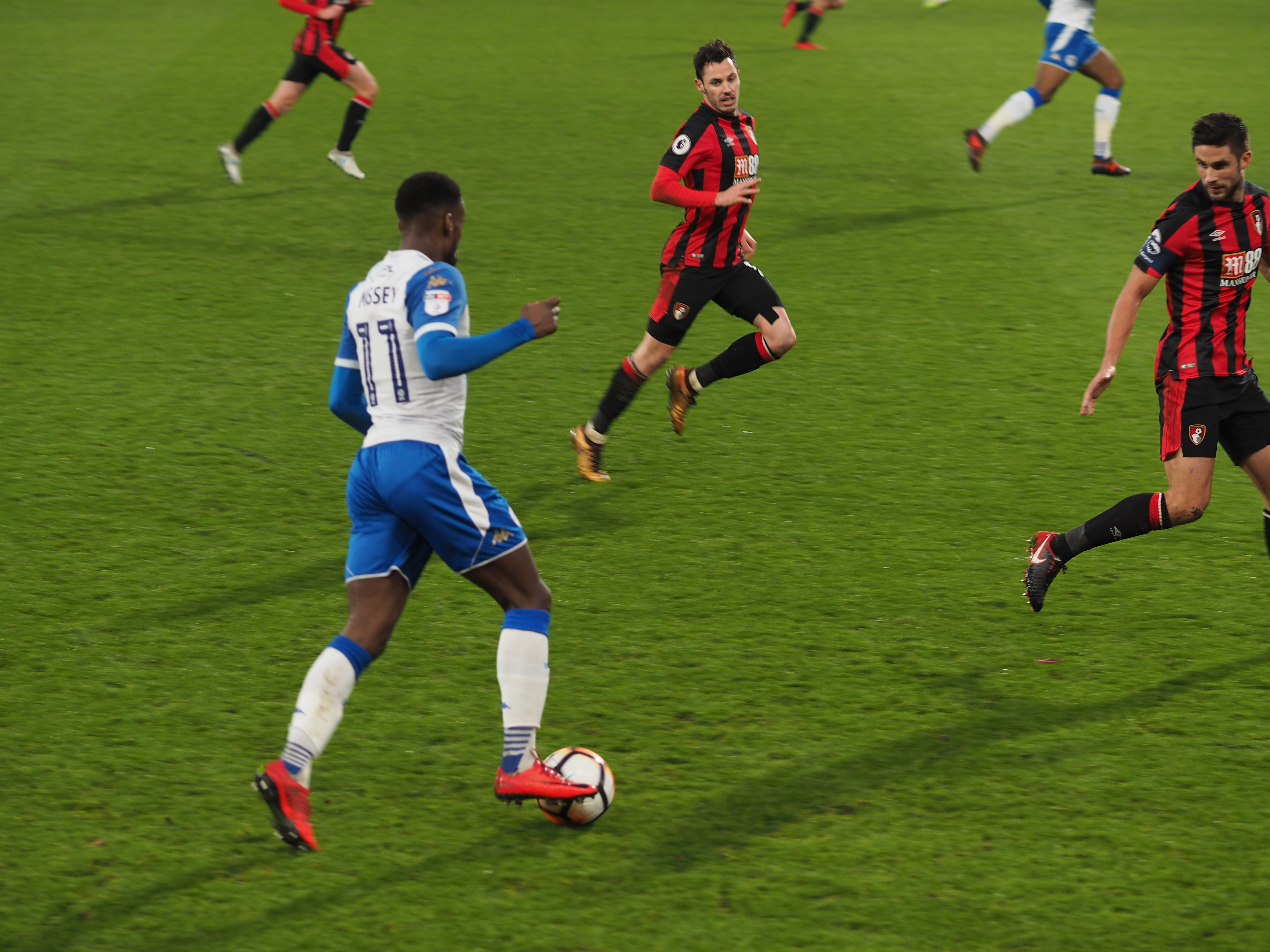 AFC Bournemouth - Wigan Athletic 2:2, Emirates FA Cup Third Round, 6-Jan-2018, Vitality Stadium, Bournemouth